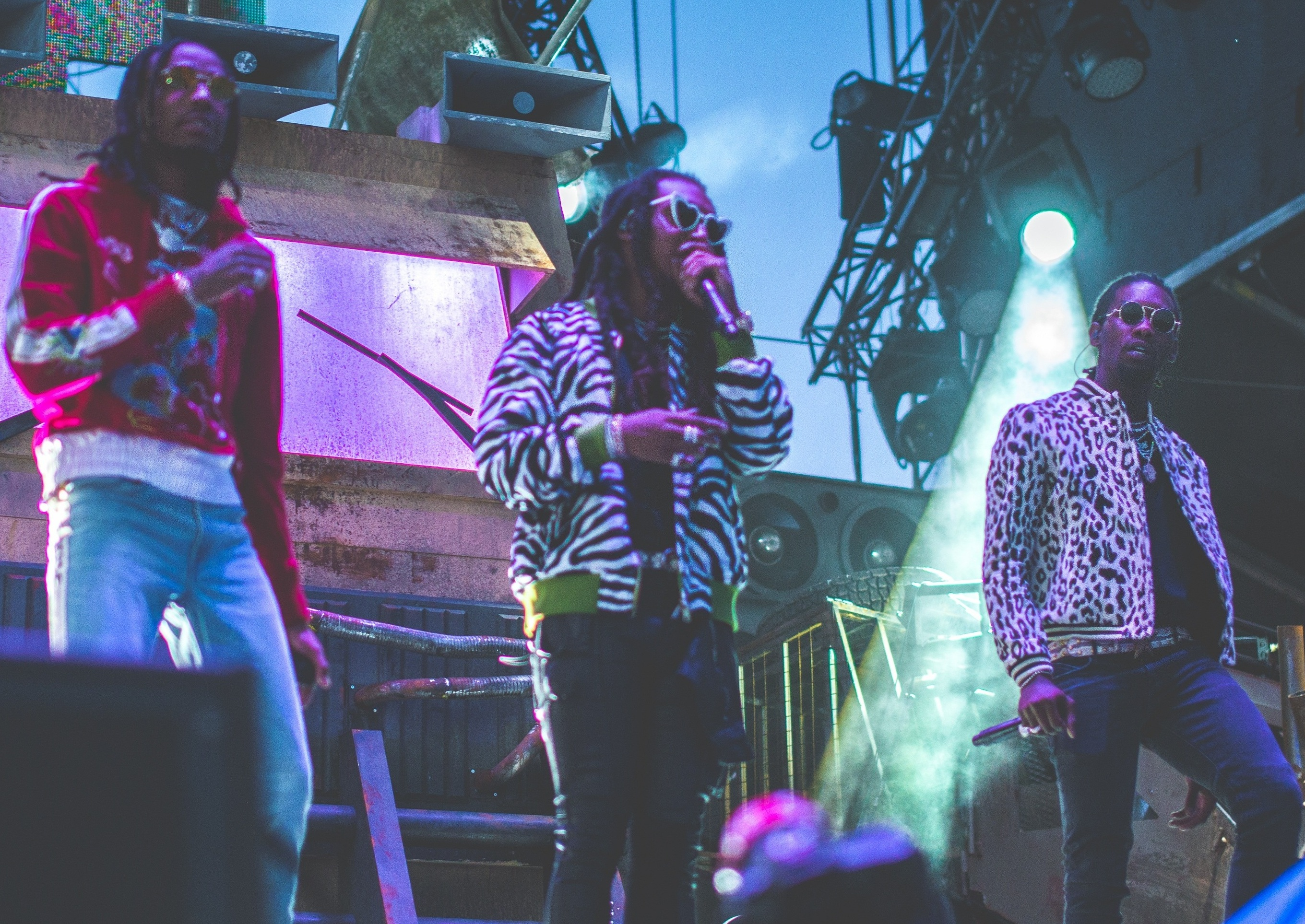 Migos performing at the Veld festival in August 2017